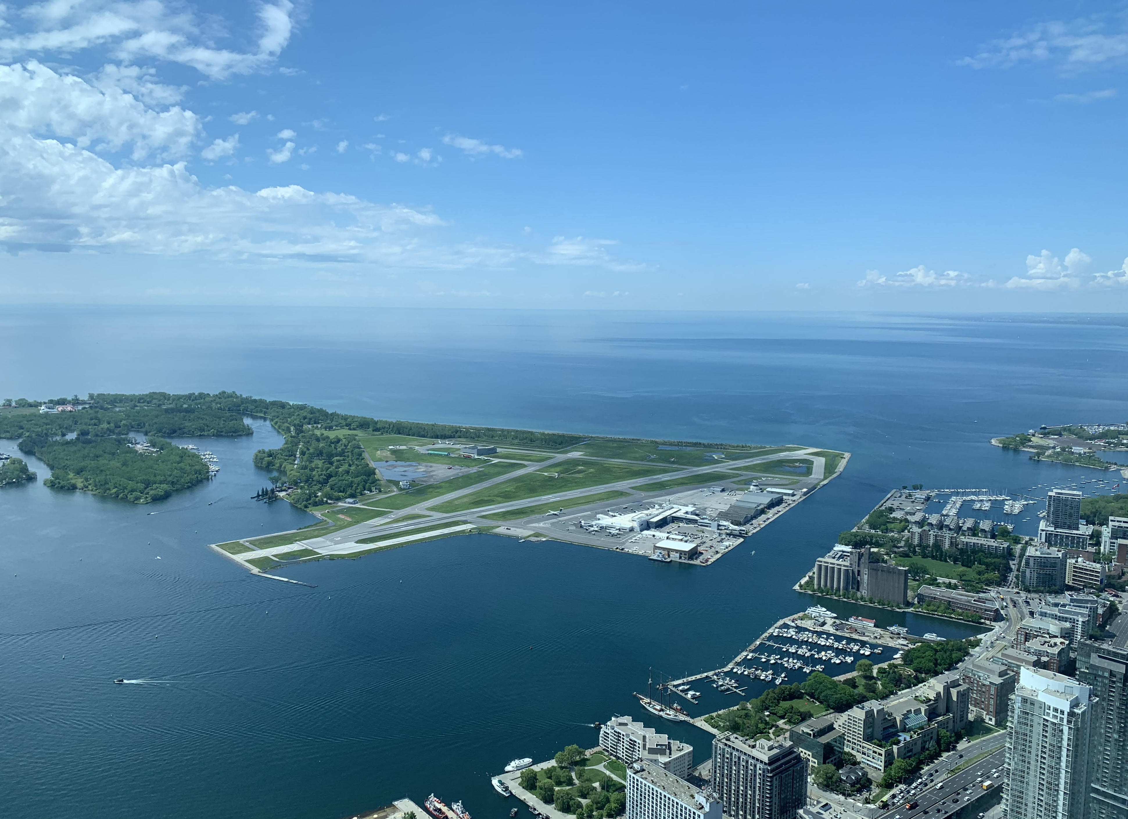 Billy Bishop Toronto City Airport as seen from the CN Tower, June 2019